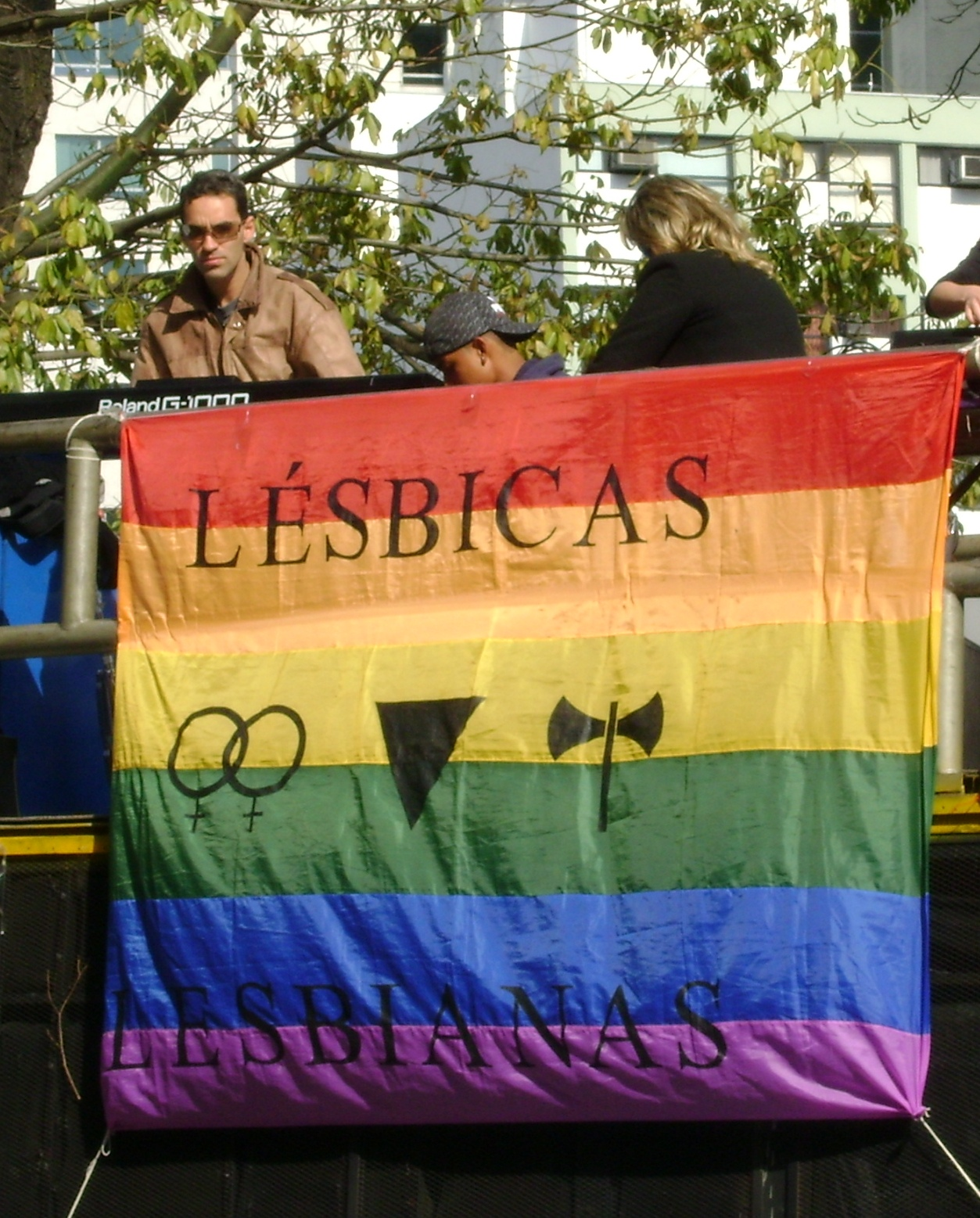 2009 Lesbian Walk, São Paulo, Brazil. Organized by Liga Brasileira de Lésbicas. March held the day before Gay Pride parade.